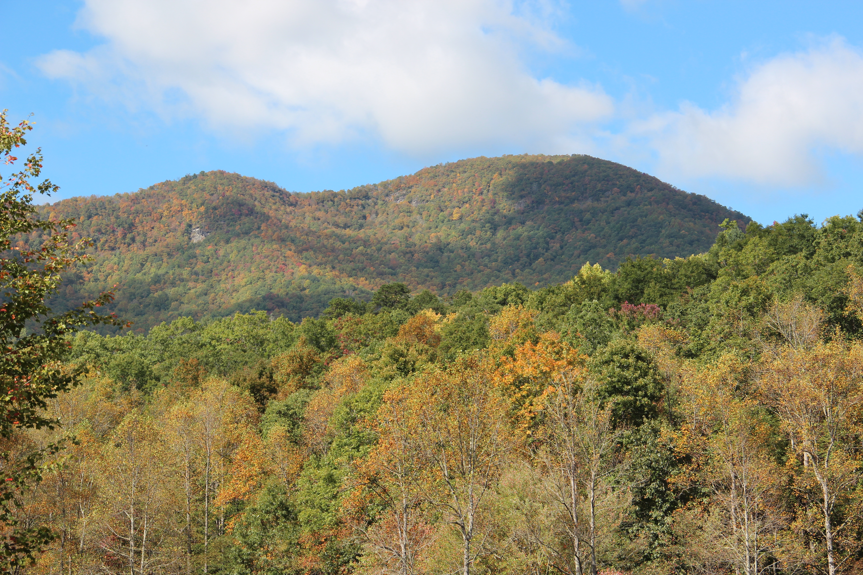 Hightower Bald viewed from Whisper Woods Estates